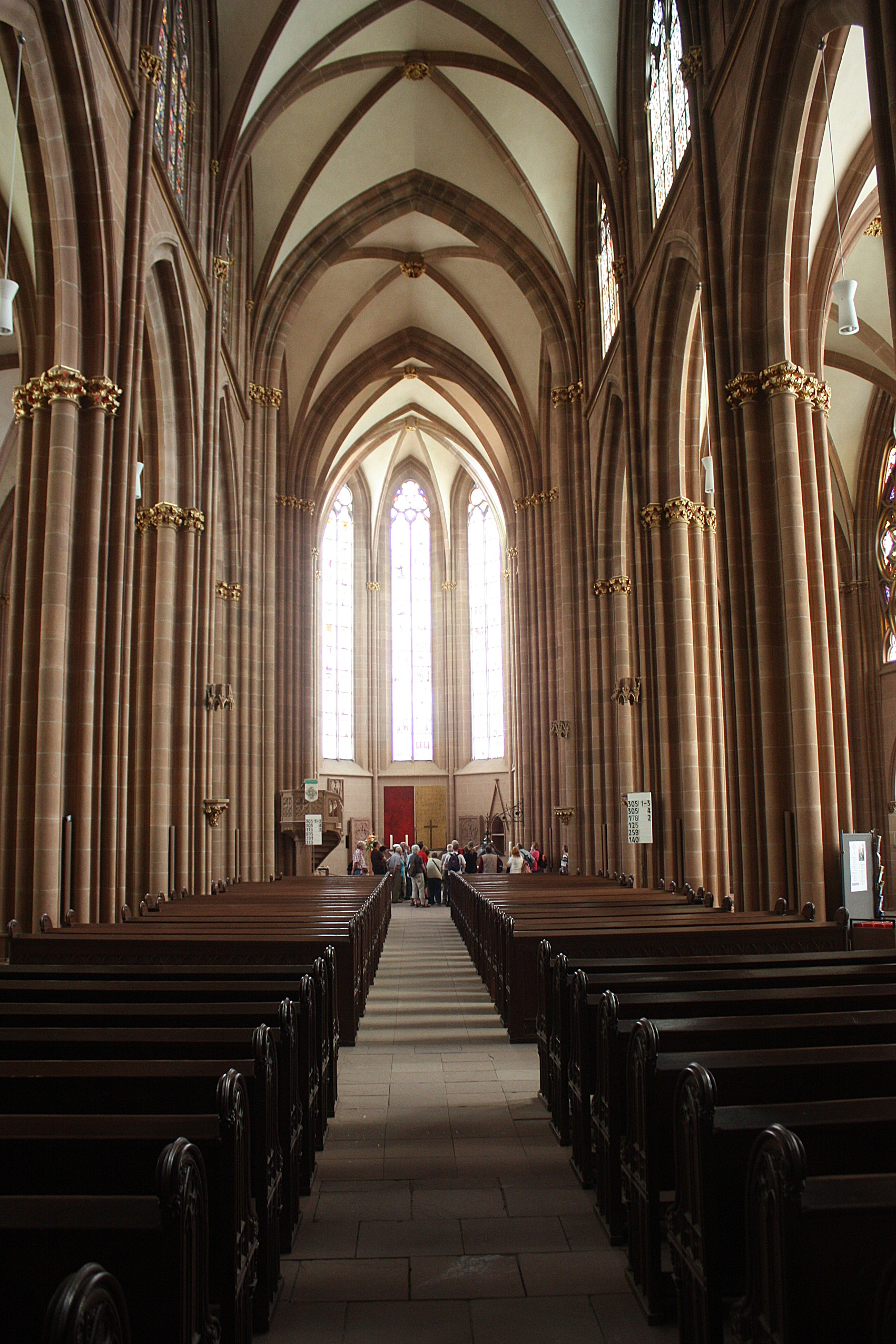 Oppenheim, Saint Catherine´s Church, inner view